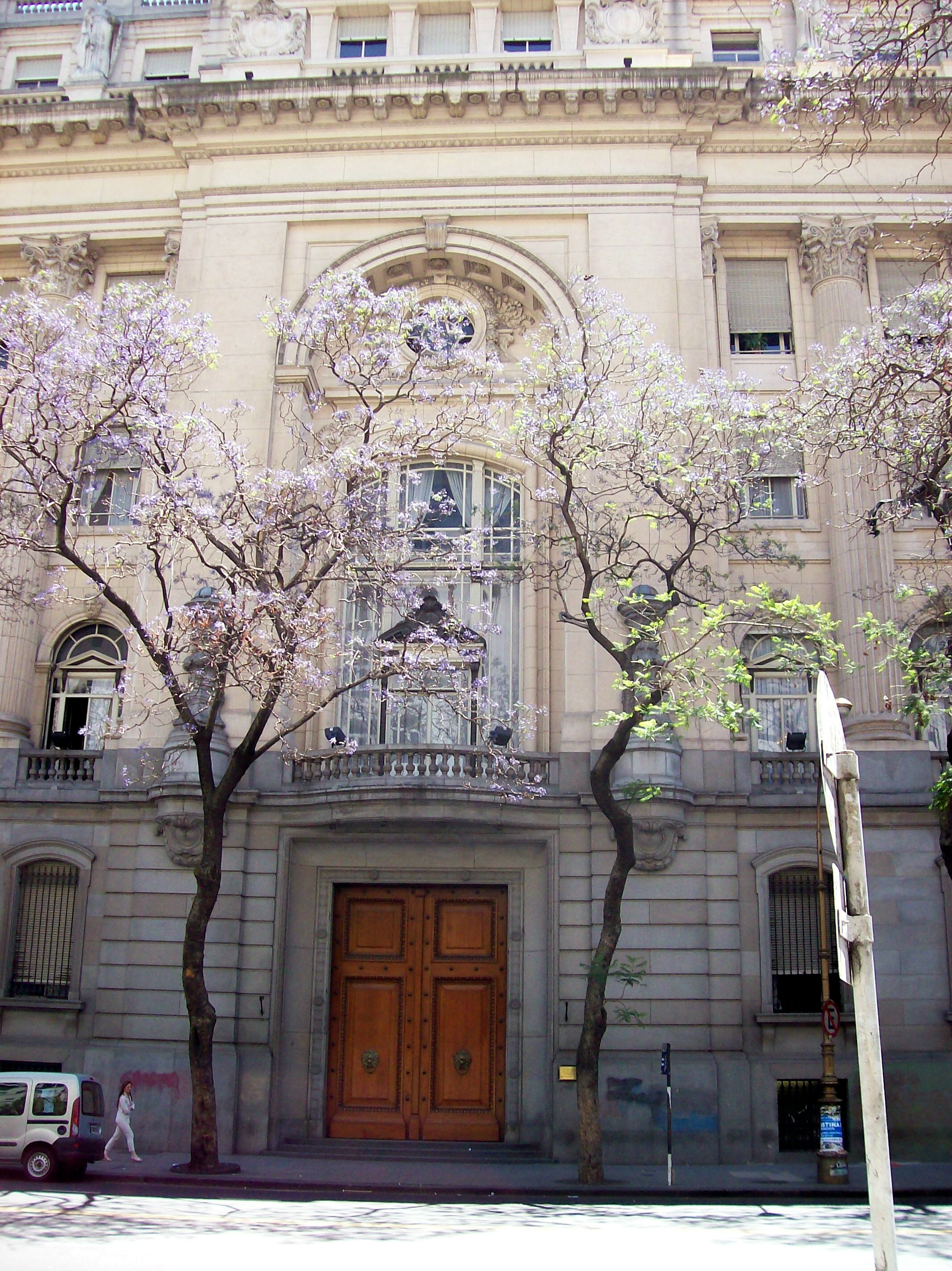 Legislative Palace of Buenos Aires, Barrio de Monserrat, next Plaza de Mayo. Entrance by Julio A. Roca avenue (usually called "Diagonal Sur")